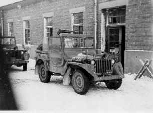 Patton's Jeep in Bastogne